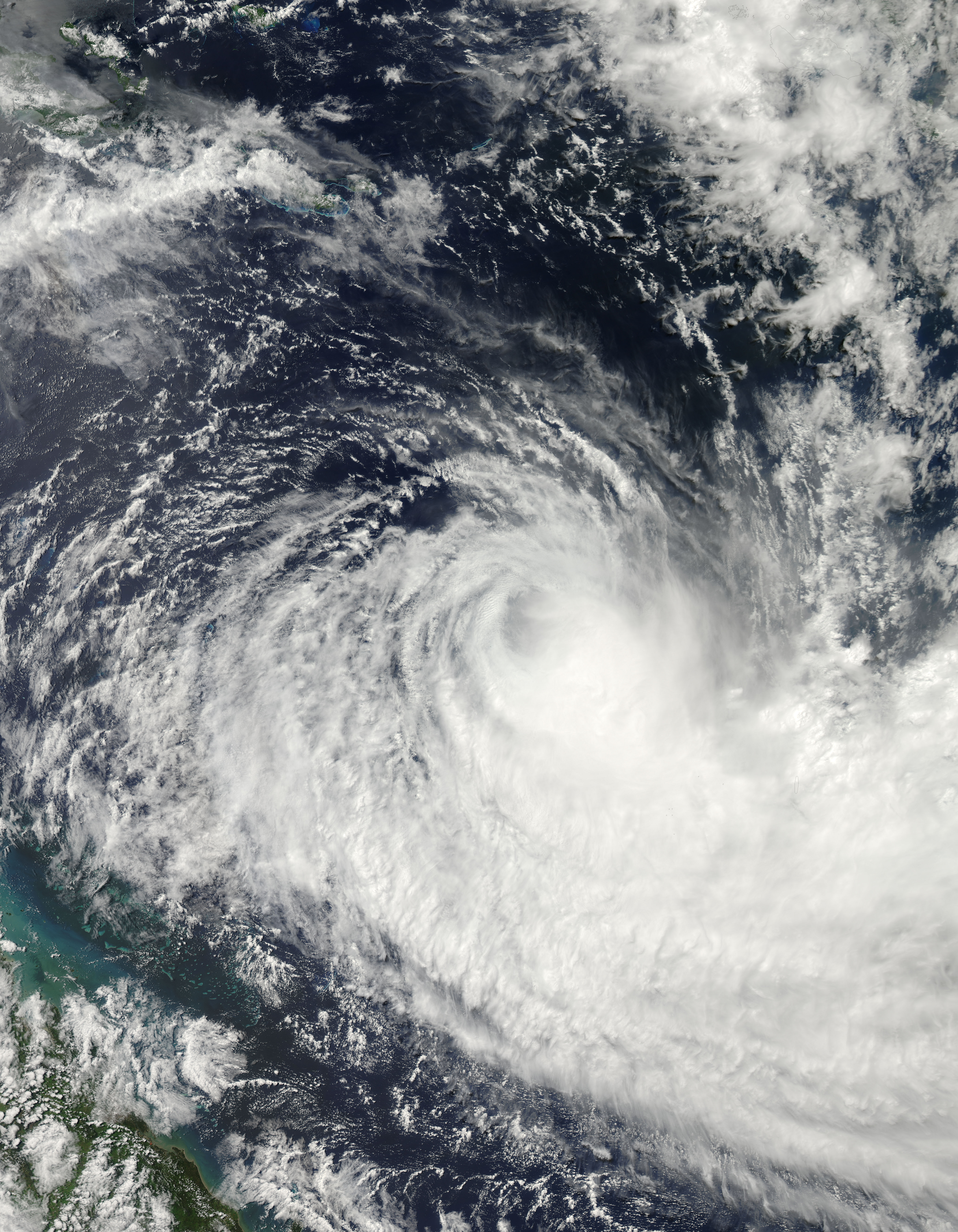 Tropical Cyclone Ului approached the Queensland coast on March 19, 2010. According to a bulletin issued by the U.S. Navy’s Joint Typhoon Warning Center (JTWC) at 15:00 UTC March 19 (2:00 a.m. March 20 in Sydney), the storm had maximum sustained winds of 55 knots (100 kilometers per hour) and gusts up to 70 knots (130 kilometers per hour). These wind speeds were down from those of the previous day, consistent with JTWC forecasts of diminishing storm strength. The Moderate Resolution Imaging Spectroradiometer (MODIS) on NASA’s Aqua satellite captured this true-color image of the storm on March 19, 2010. Ului spans several hundred kilometers over the Coral Sea. Partially obscured by clouds, the Queensland coast appears in the lower-left corner. Unlike the image from the previous day, this shot shows Ului without a discernible eye, even though the storm retains a typical cyclone swirl shape.